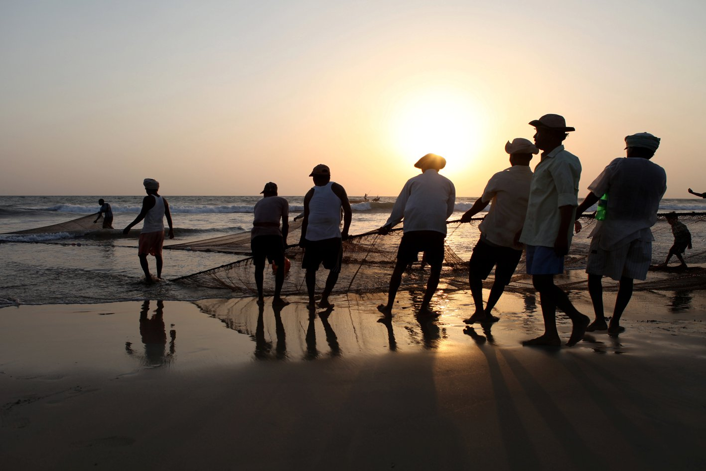 Tarkarli Photo by Sandeep Wairkar